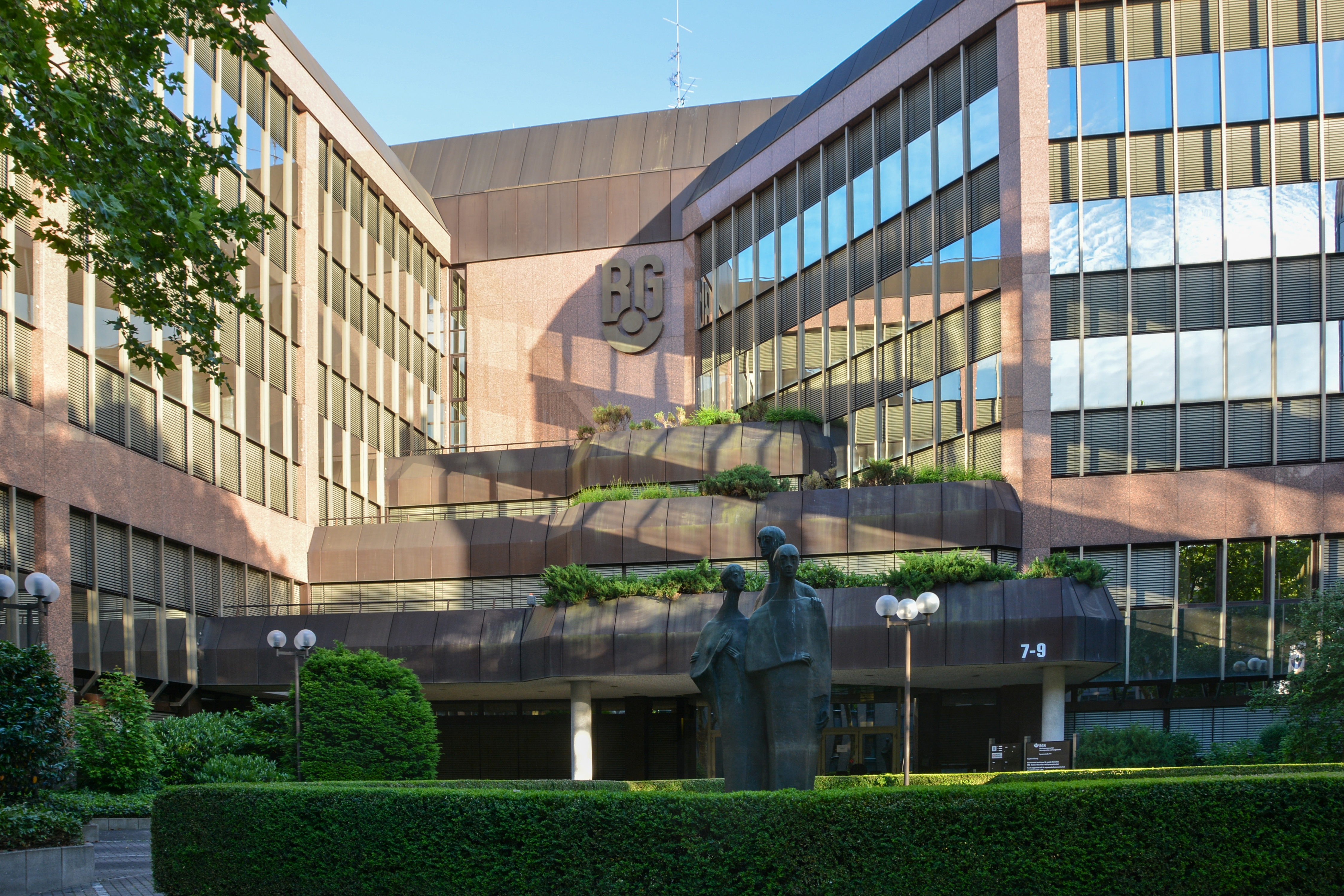 BGN Berufsgenossenschaft Nahrungsmittel und Gastgewerbe, Mannheim